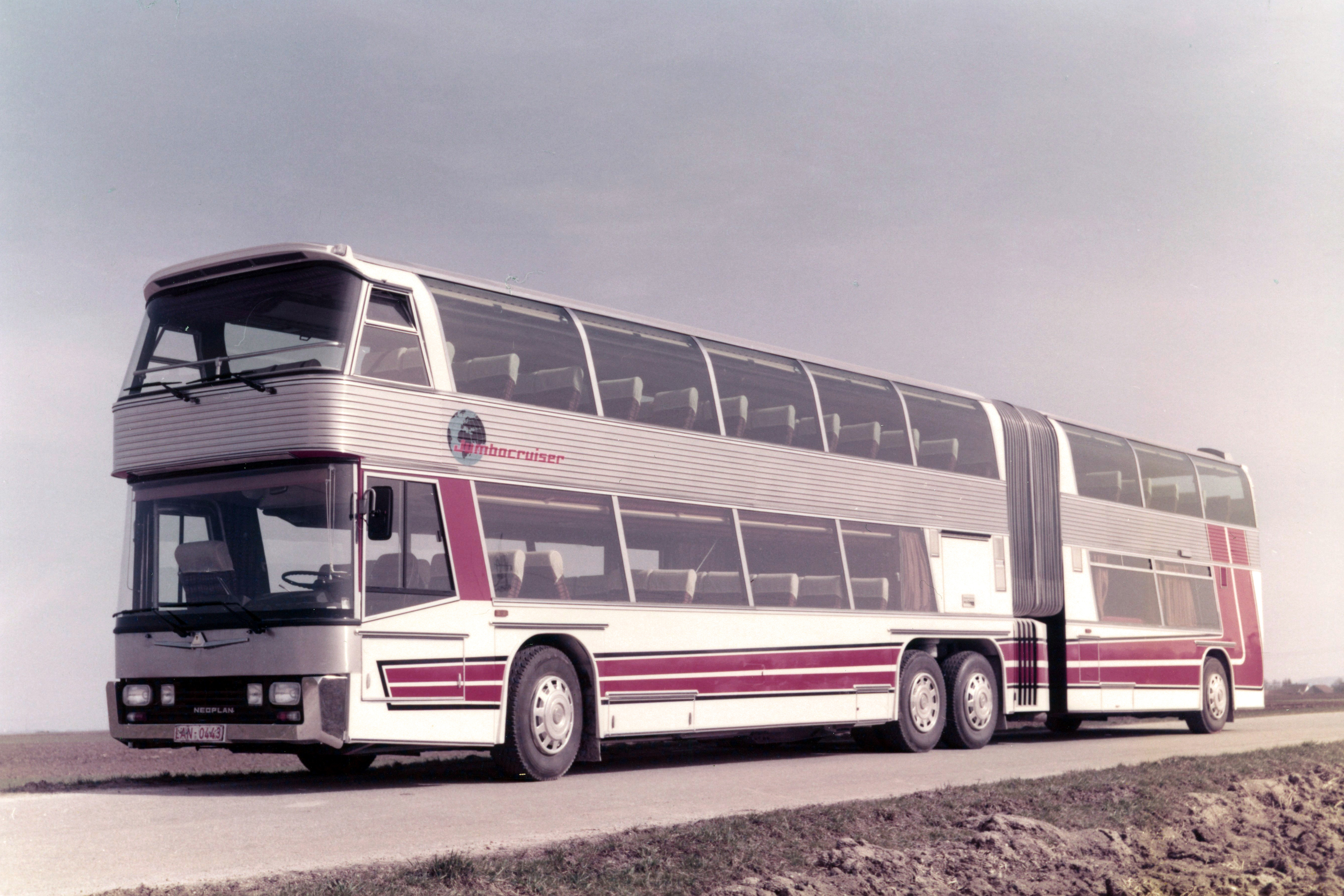 4th Neoplan Jumbocruiser before delivery. Late 1976.